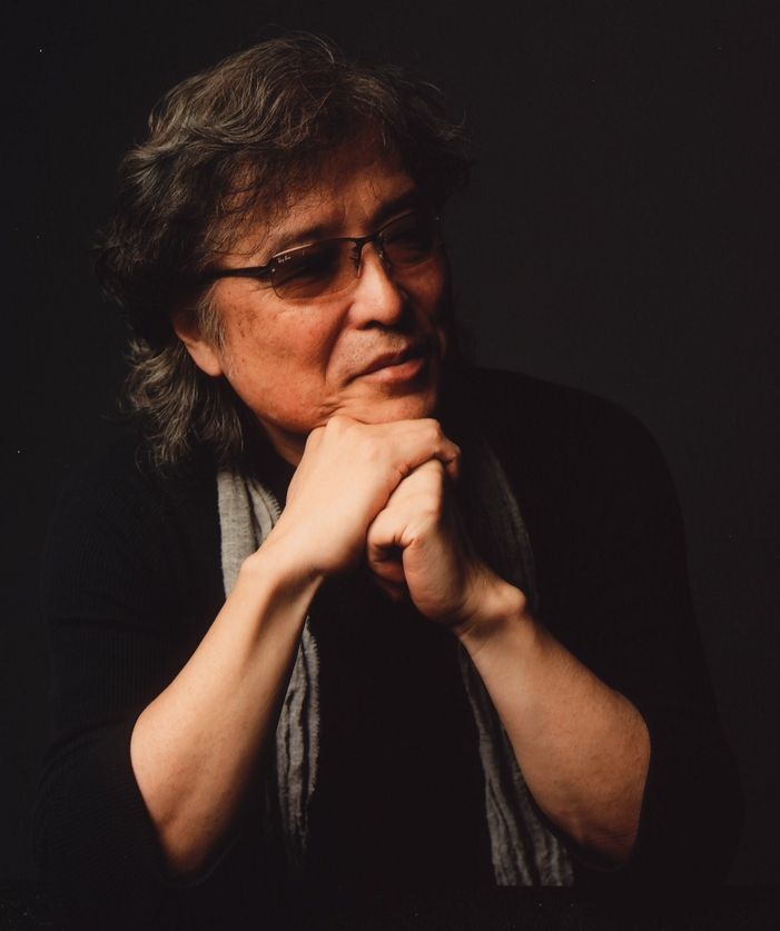 Japanese Mystery author Soji Shimada